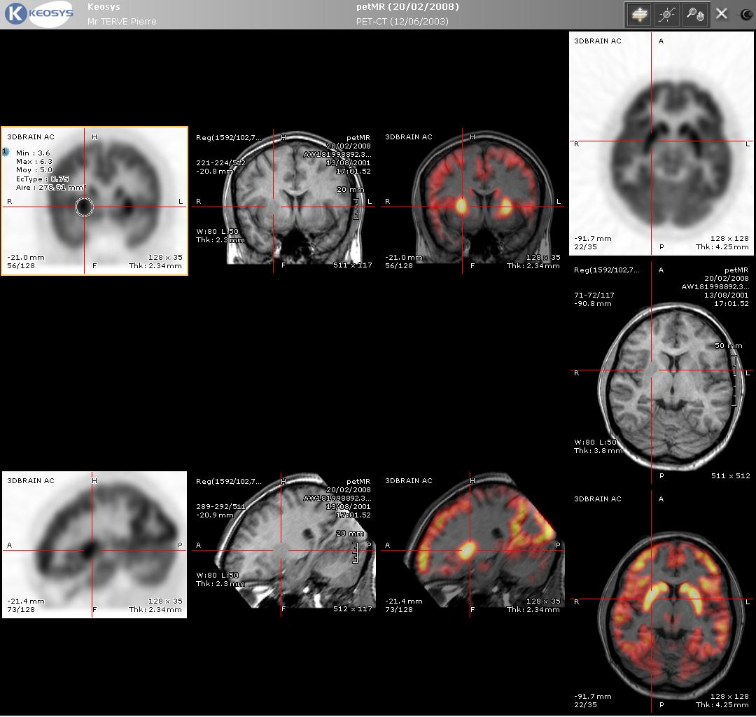 Mosaic of slices of patient's head, as seen in the PET Keosys software interface